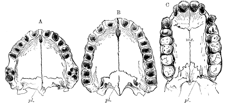 Fig. 284.—The hard palate, A, of a Caucasian; B, of a Negro; C, of an adult Orang-Utan, showing the differences in shape of the bones. The palate of the Negro represents a type transitional between that of the Caucasian and that of the Orang. mx, Maxilla; pl, palatine; p.mx, premaxilla. (From Wiedersheim's Structure of Man.)